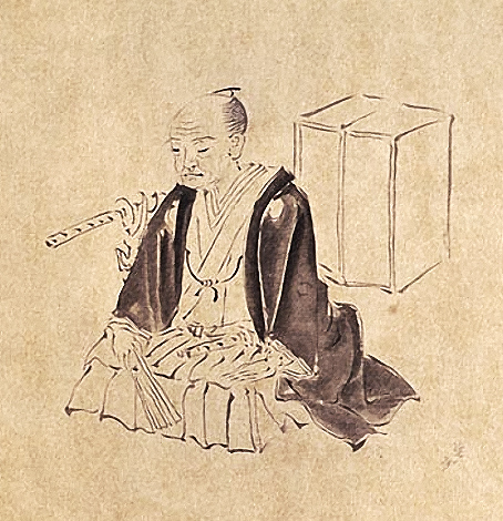 Ink drawing of Seki Takakazu from the collection of the Ishikawa Family of Ichinoseki, passed down to them through the related Chiba Family, which was involved in mathematics institutes in Tokyo.